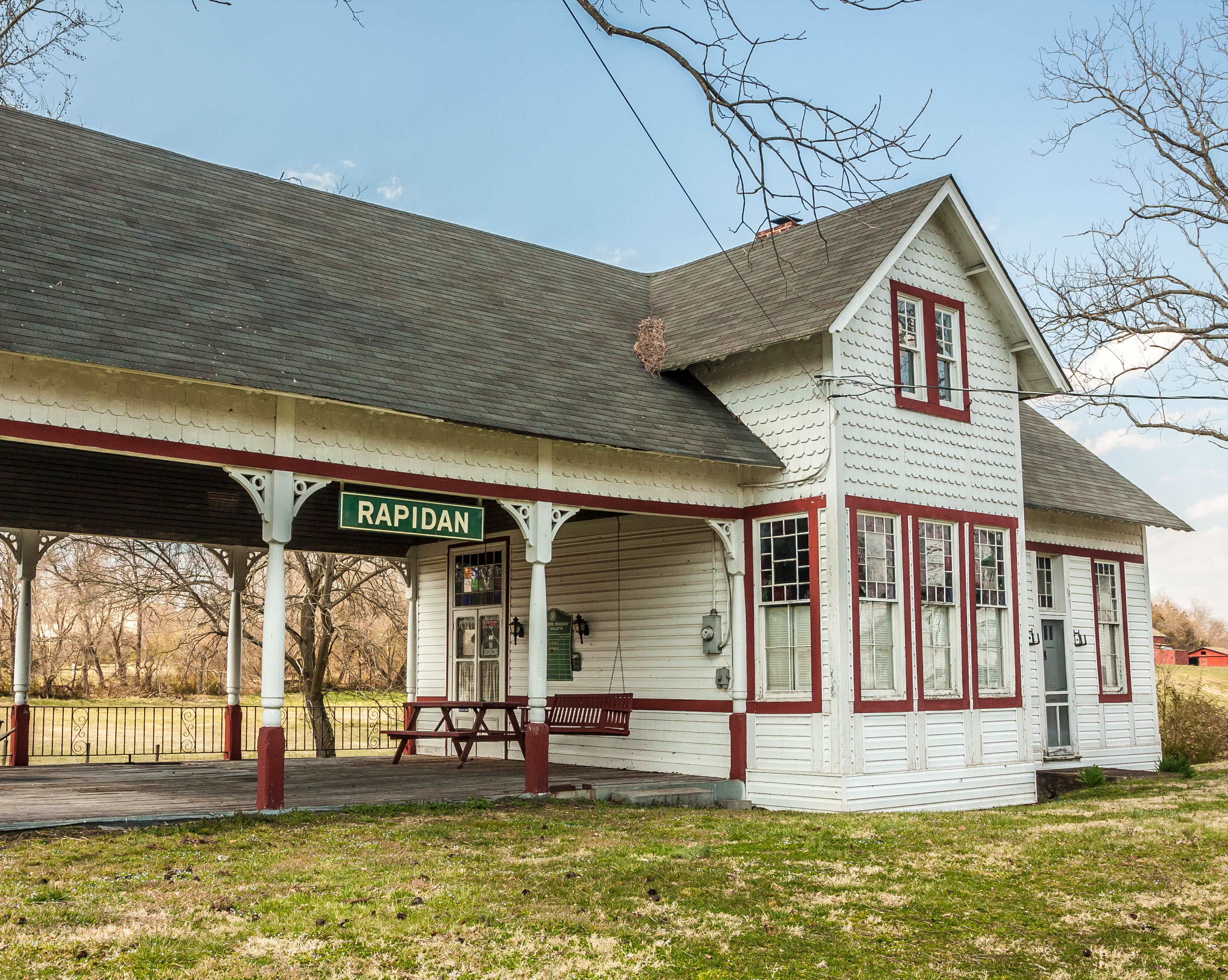 Rapidan, VA passenger depot, part of the Rapidan Historic District, view from Virginia Hwy. 615.